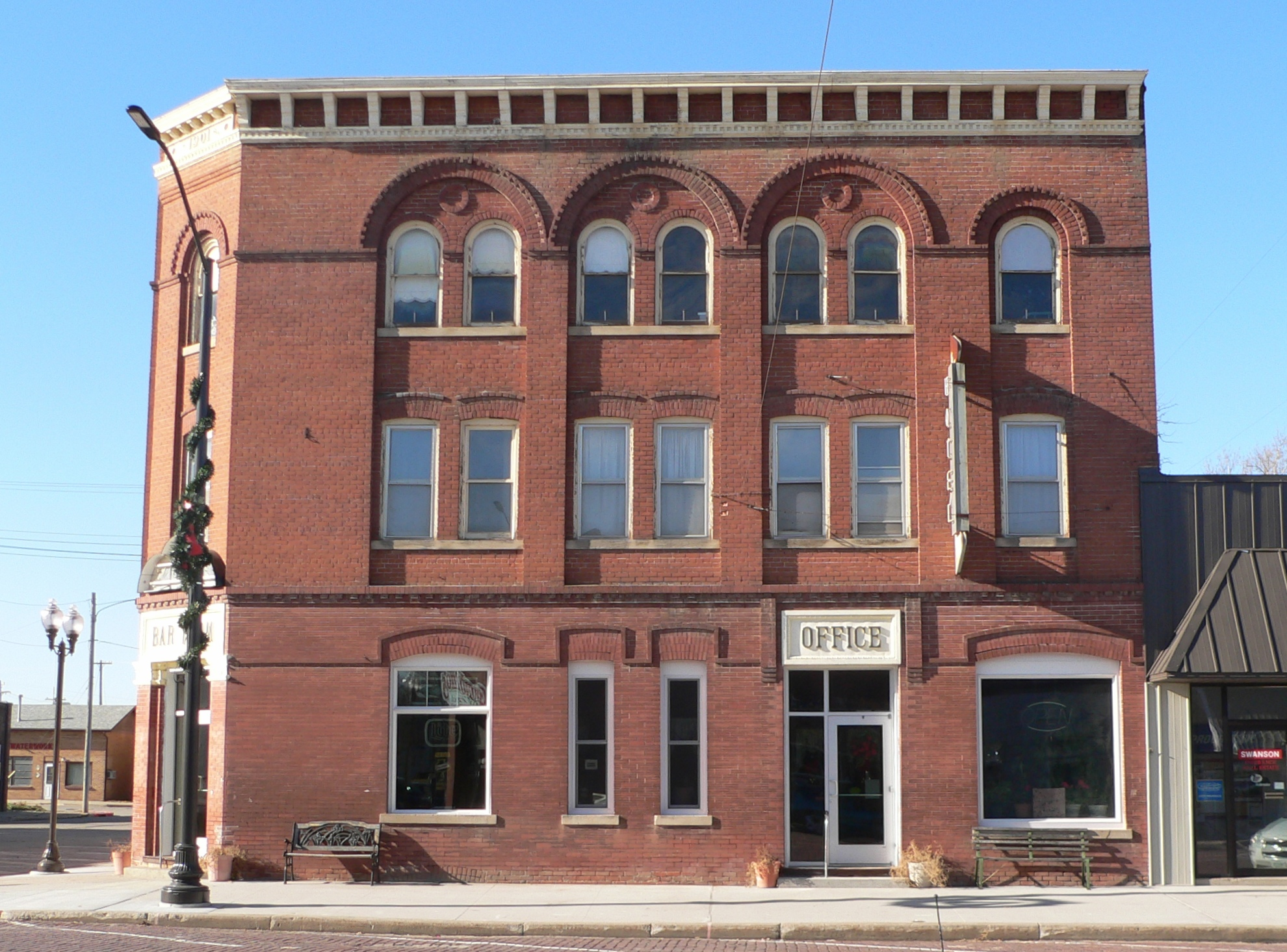 Harder Hotel, located at 503 Main Street (northwest corner of Main and Howard) in Scribner, Nebraska; seen from the east, across Main.